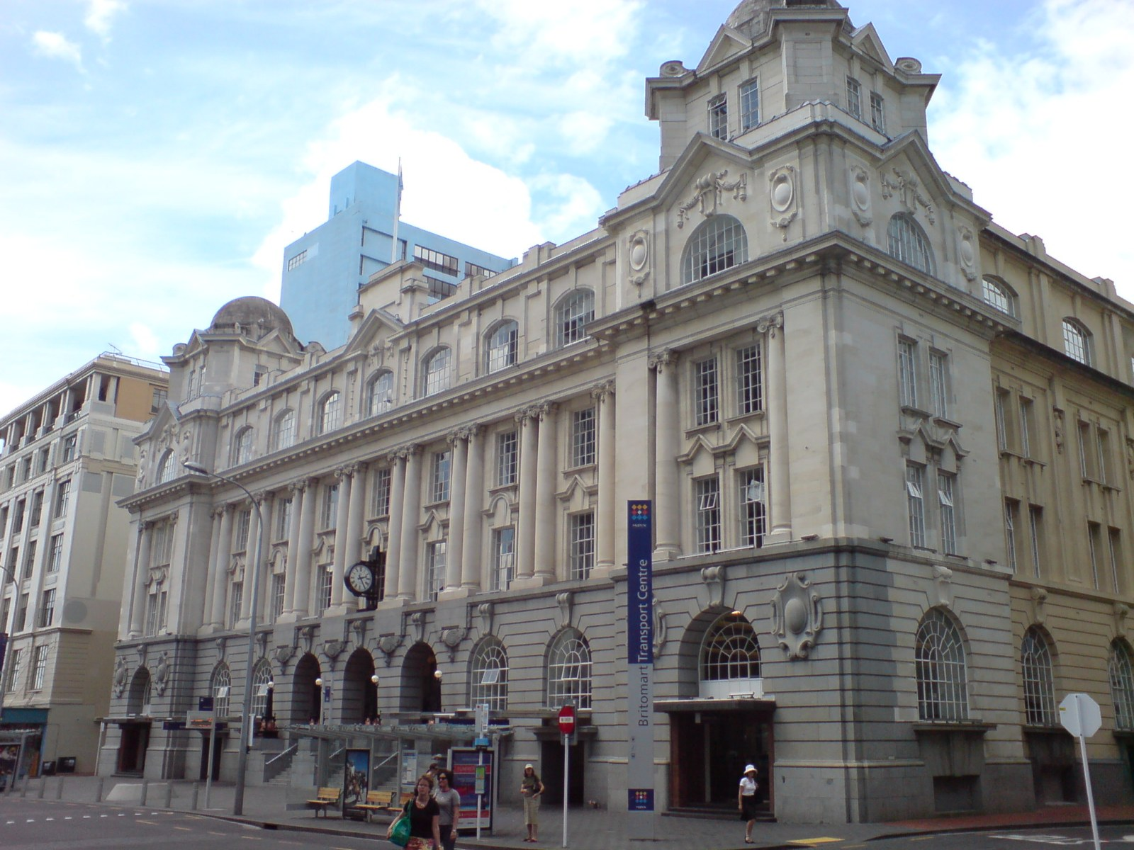 Britomart Transport Centre in Auckland City, New Zealand from the outside, looking northeast. The old building is only used for the public transport centre on the ground floor, with the majority of the station lying underneath and behind.